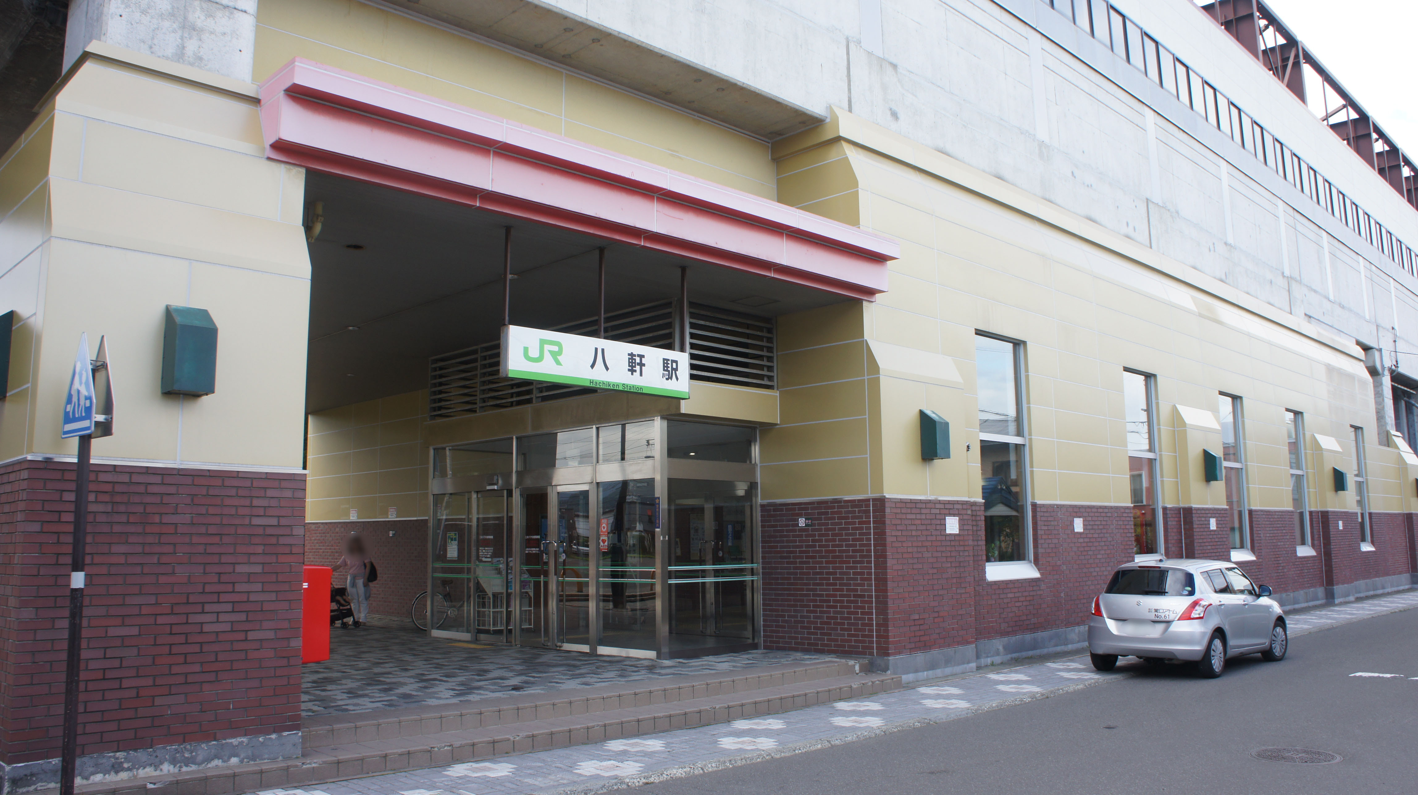 Station building of JR Sassho-Line Hachiken Station